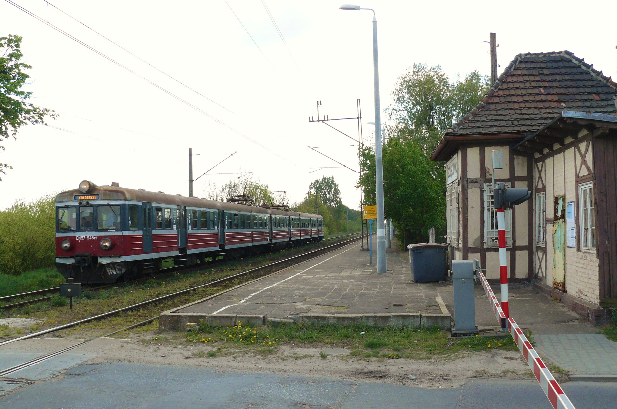 Goleczewo Train Station.